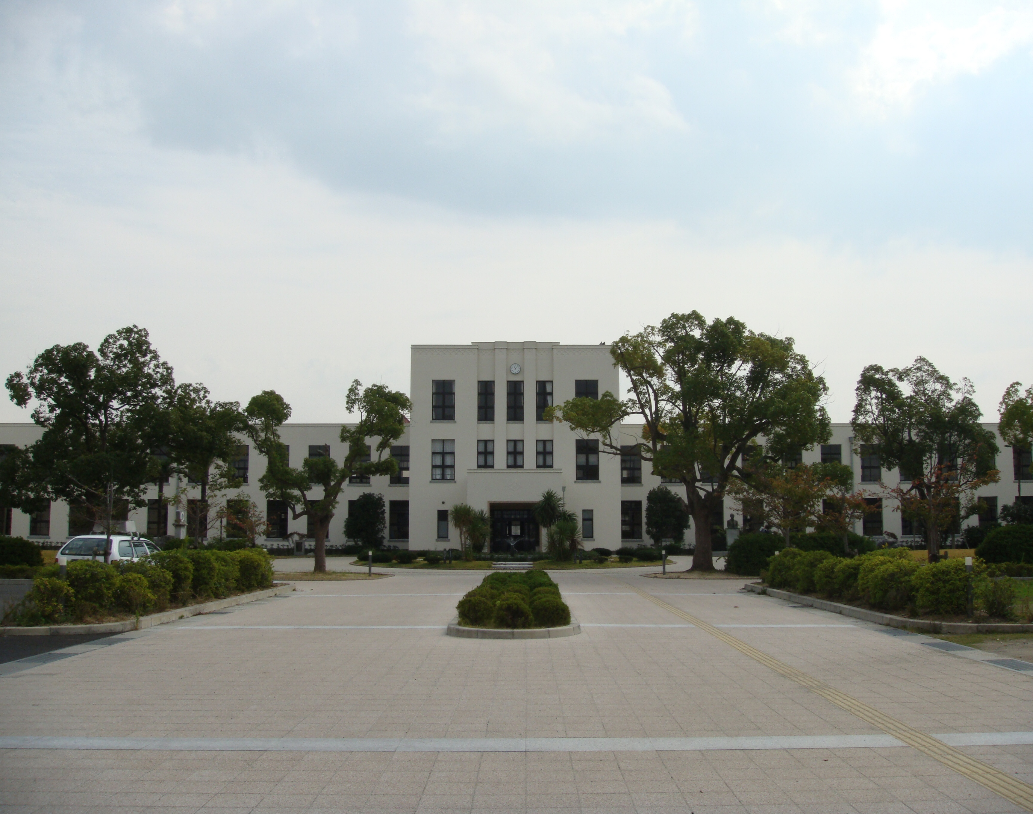 Toyosato Elementary School(After Renewal)